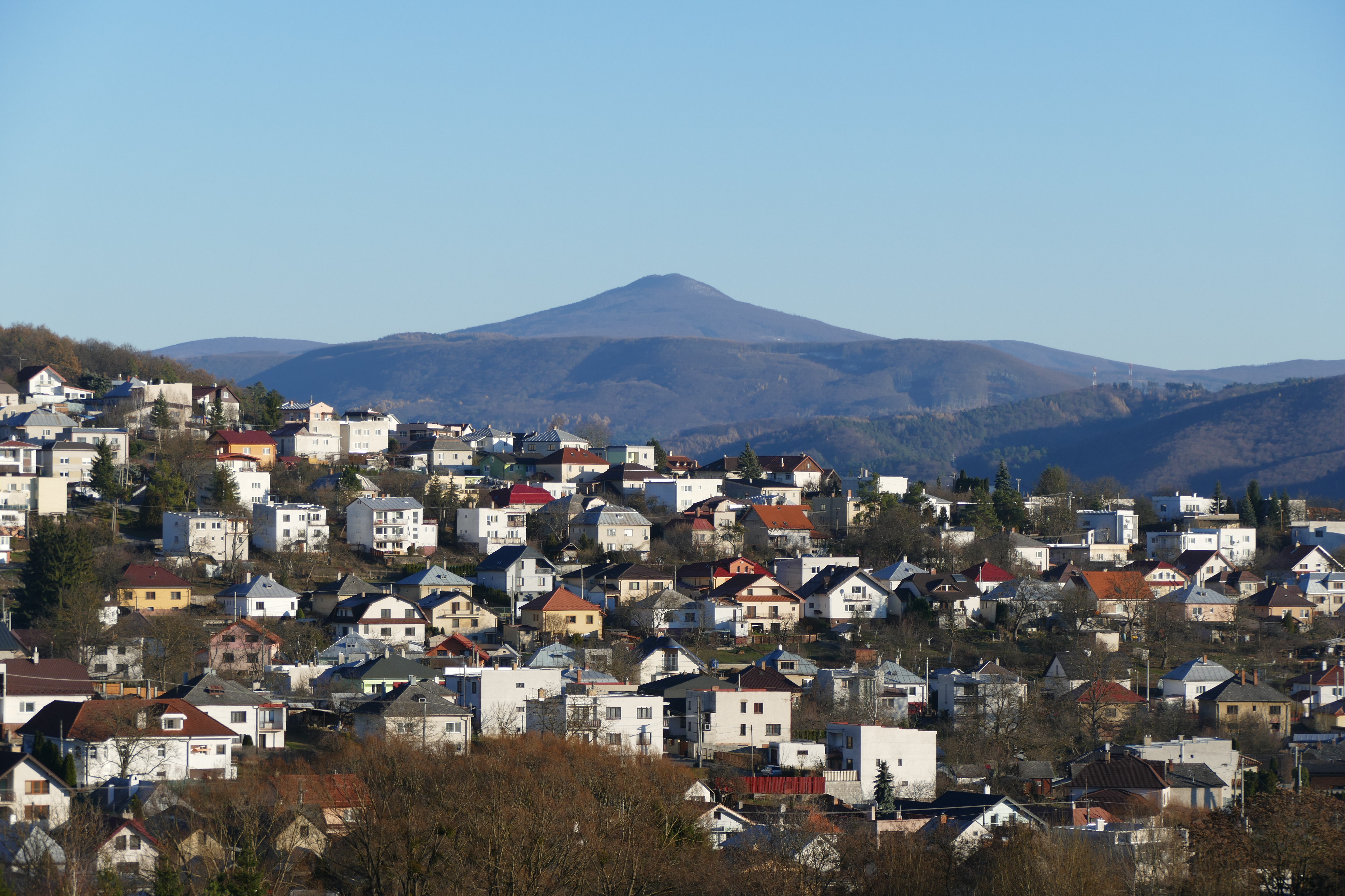 View of the peak Vihorlat from town Humenné